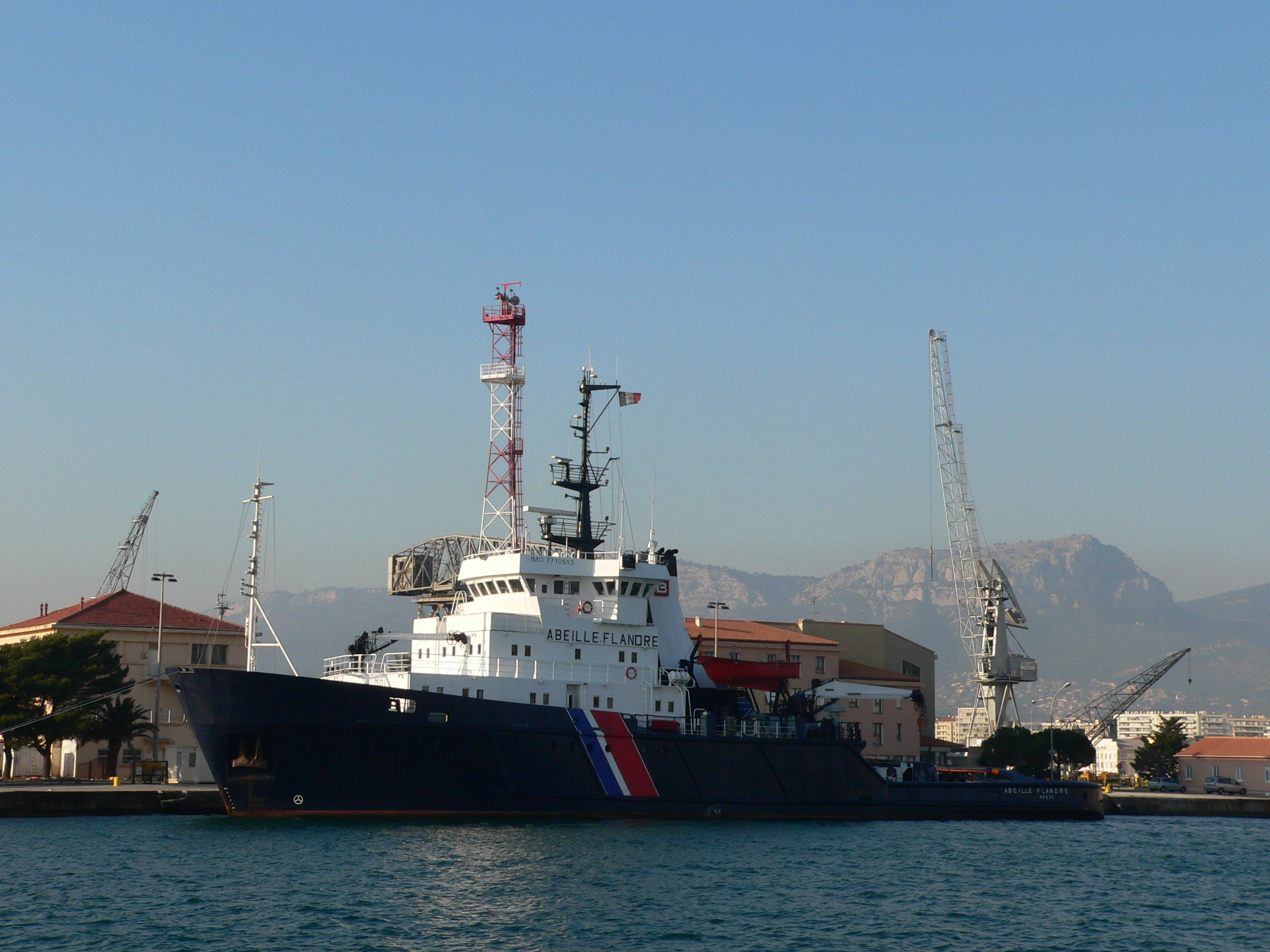 The high sea tugboat Abeille Flandre in 2006 in the harbor of Toulon, France